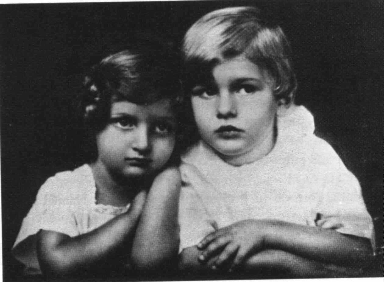 Hannah Senesh and her brother, People of Israel